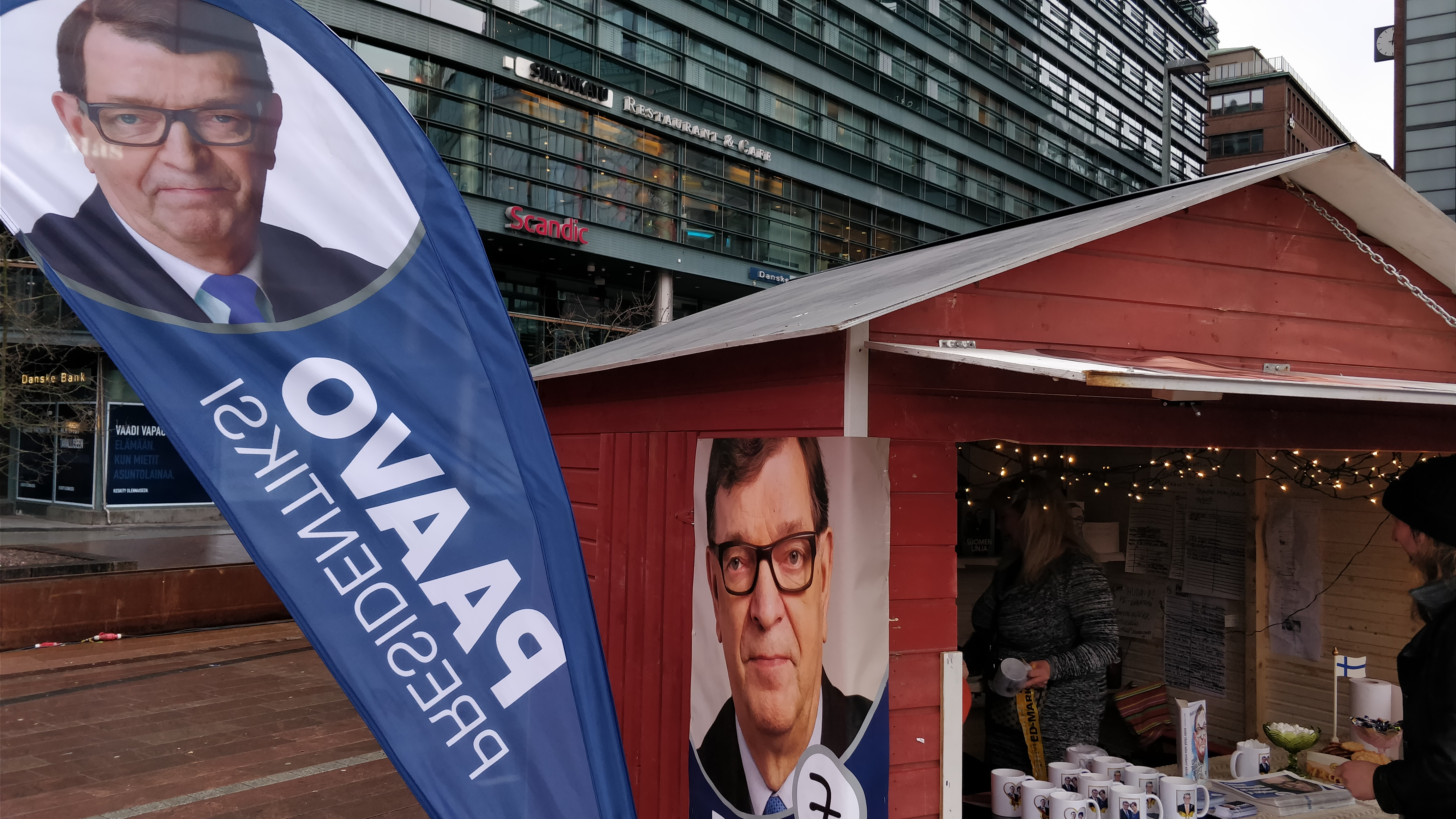 Paavo Väyrynen in Helsinki